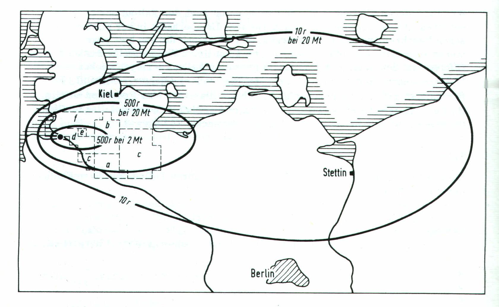 Map of collateral damage through one atomic bomb of 20MT (1000x Hiroshima type) detonated on ground at Hamburg in Germany with Fallout in case of west wind reaching into Poland. A radioactive dose of 1000 r (roentgen equivalent man, which is according to ERD = residual dose = accumulated dose on ground) is deadly without chance of survival, 100 r implies illness.